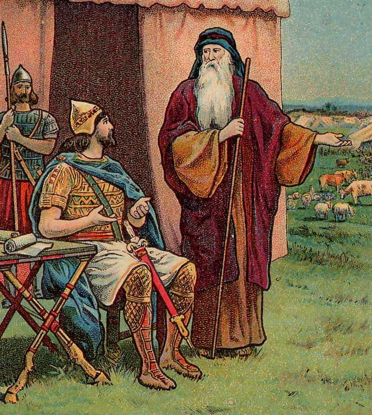 Saul Rejected as King; as in 1 Samuel 15:13-23; illustration from a Bible card published by the Providence Lithograph Company